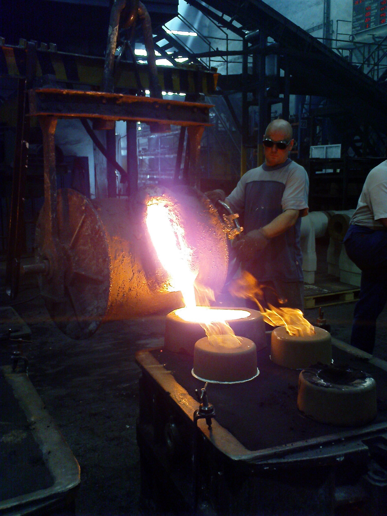 Casting (metalworking)